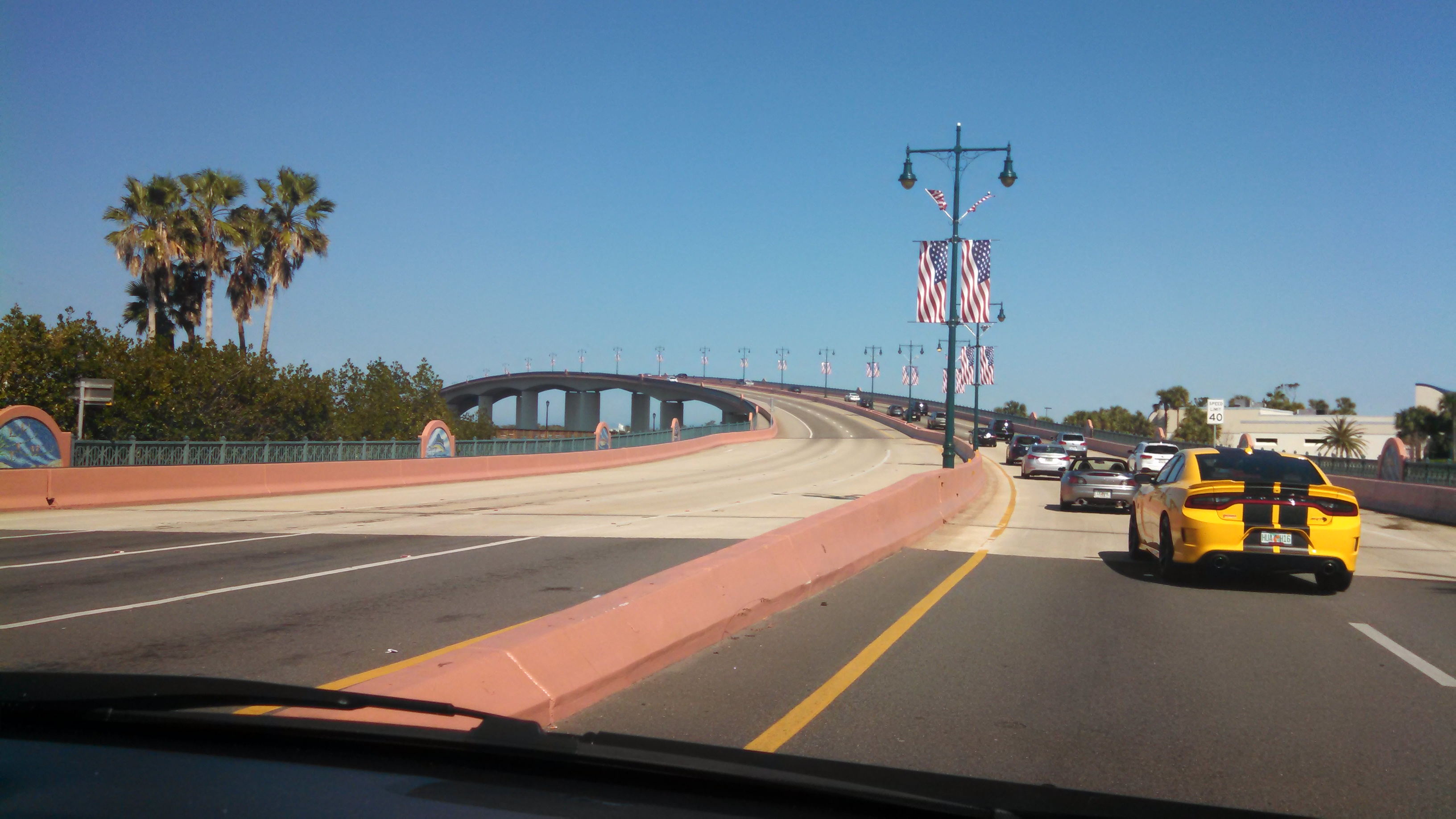 The bridge after it has been repainted in mid-2015.